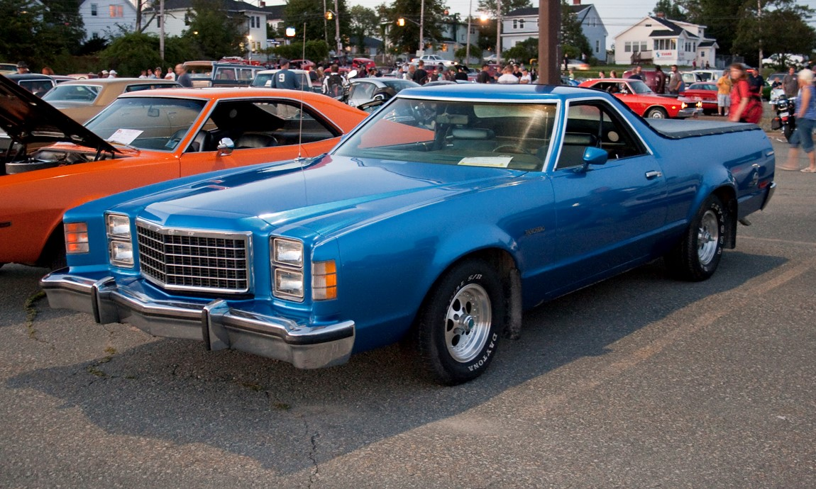 Ford Ranchero